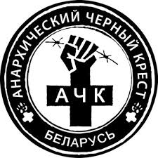 Anarchist Black Cross Belarus logo